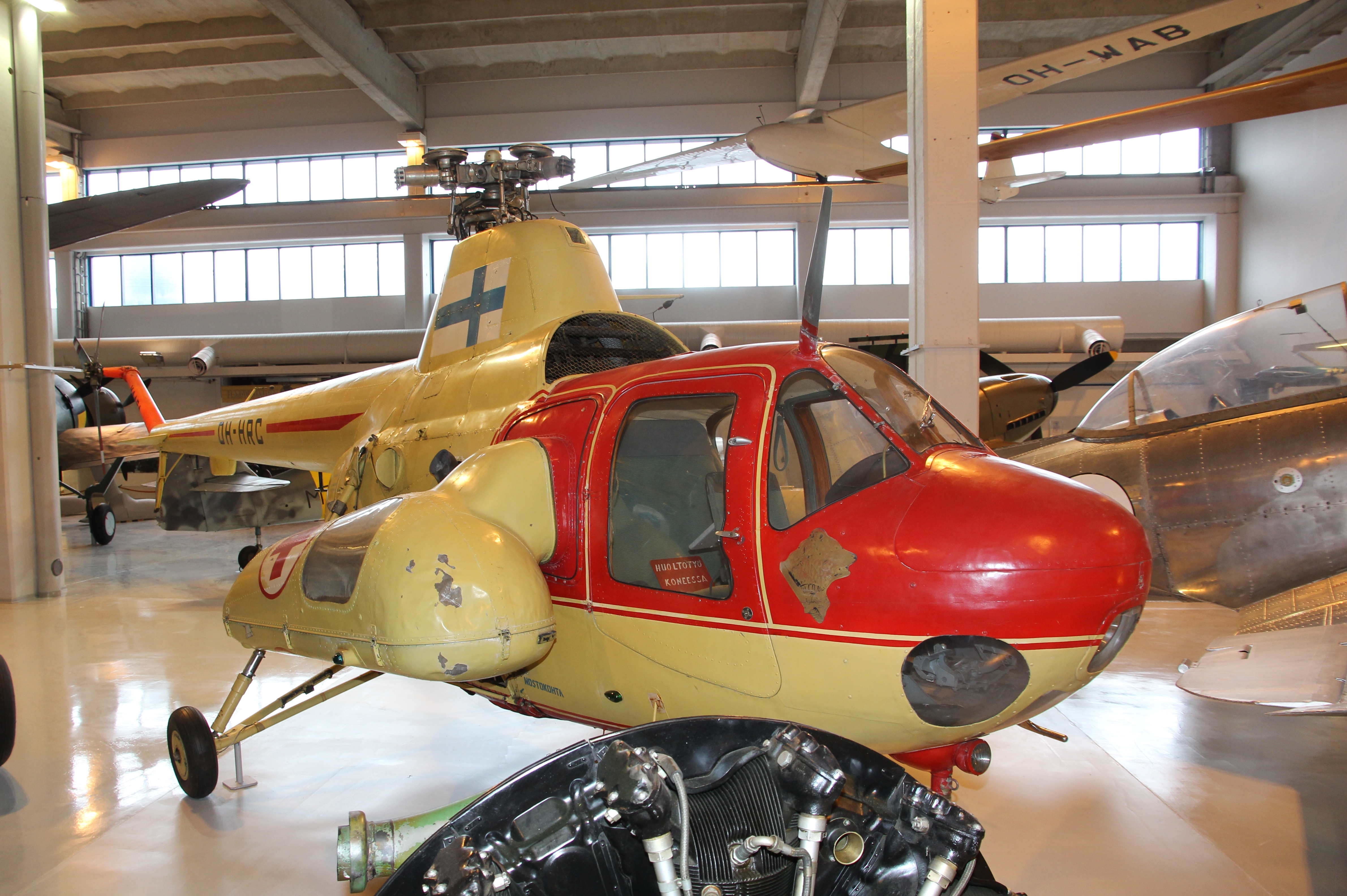 Finnish border guard Mil Mi-1 helicopter (OH-HRC) in the Aviation Museum of Central Finland.